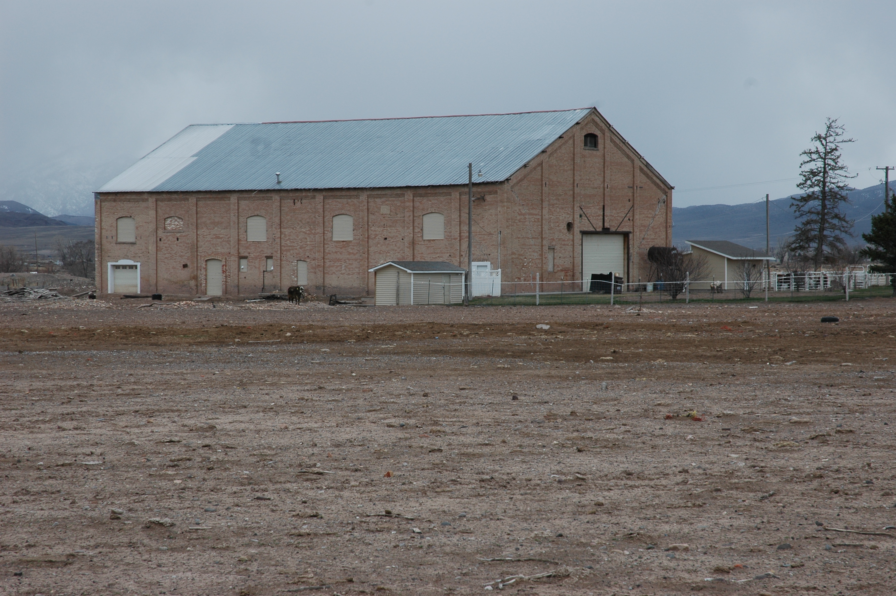 Elsinore Sugar Factory, a historic building in Elsinore, Utah, United States.